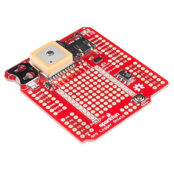 Arduino GPS shield